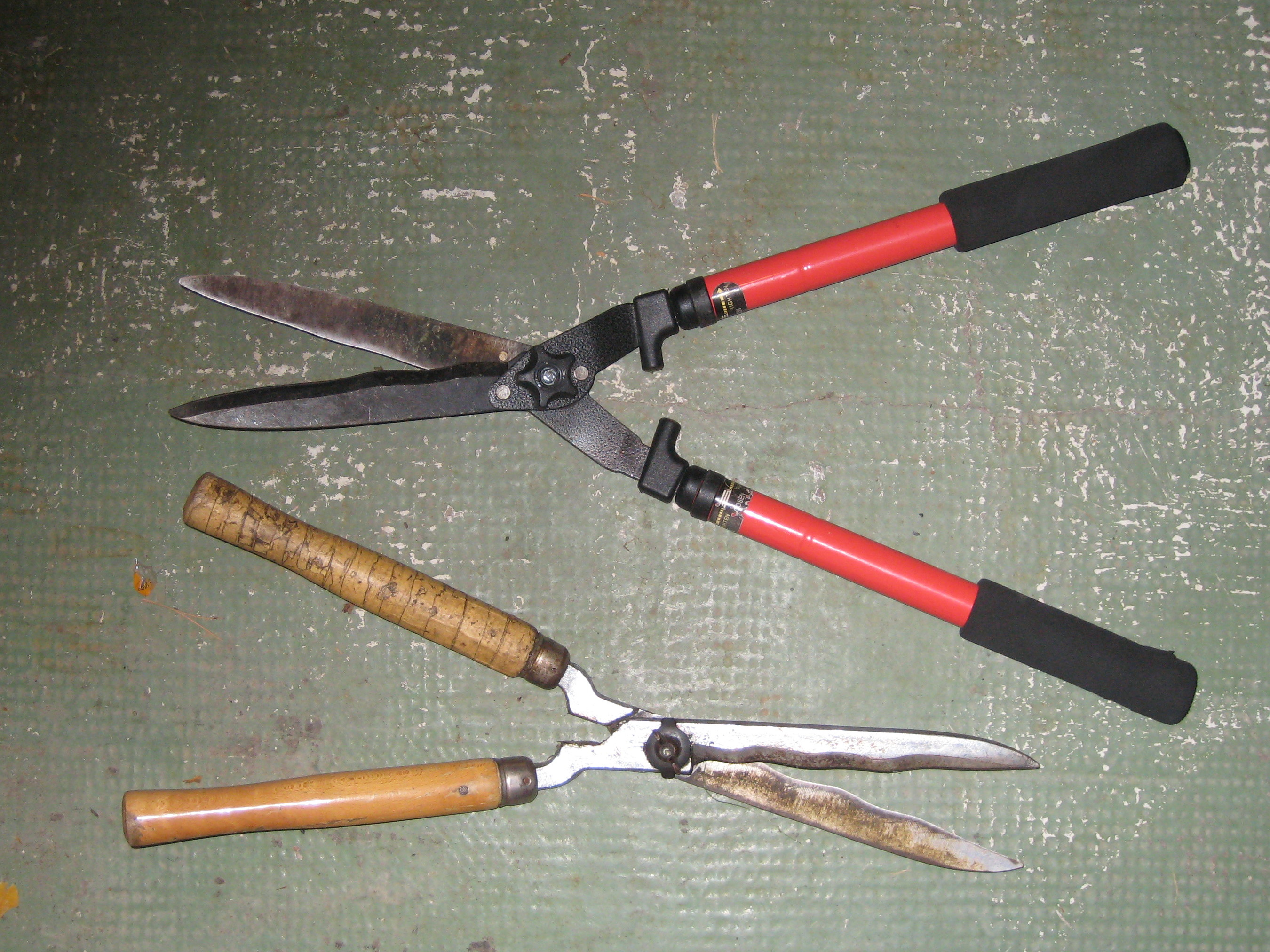 Secateurs